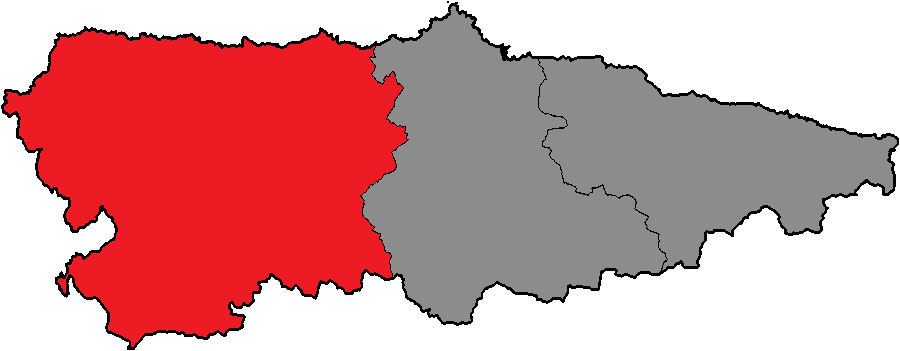 Asturian General Junta Western District.